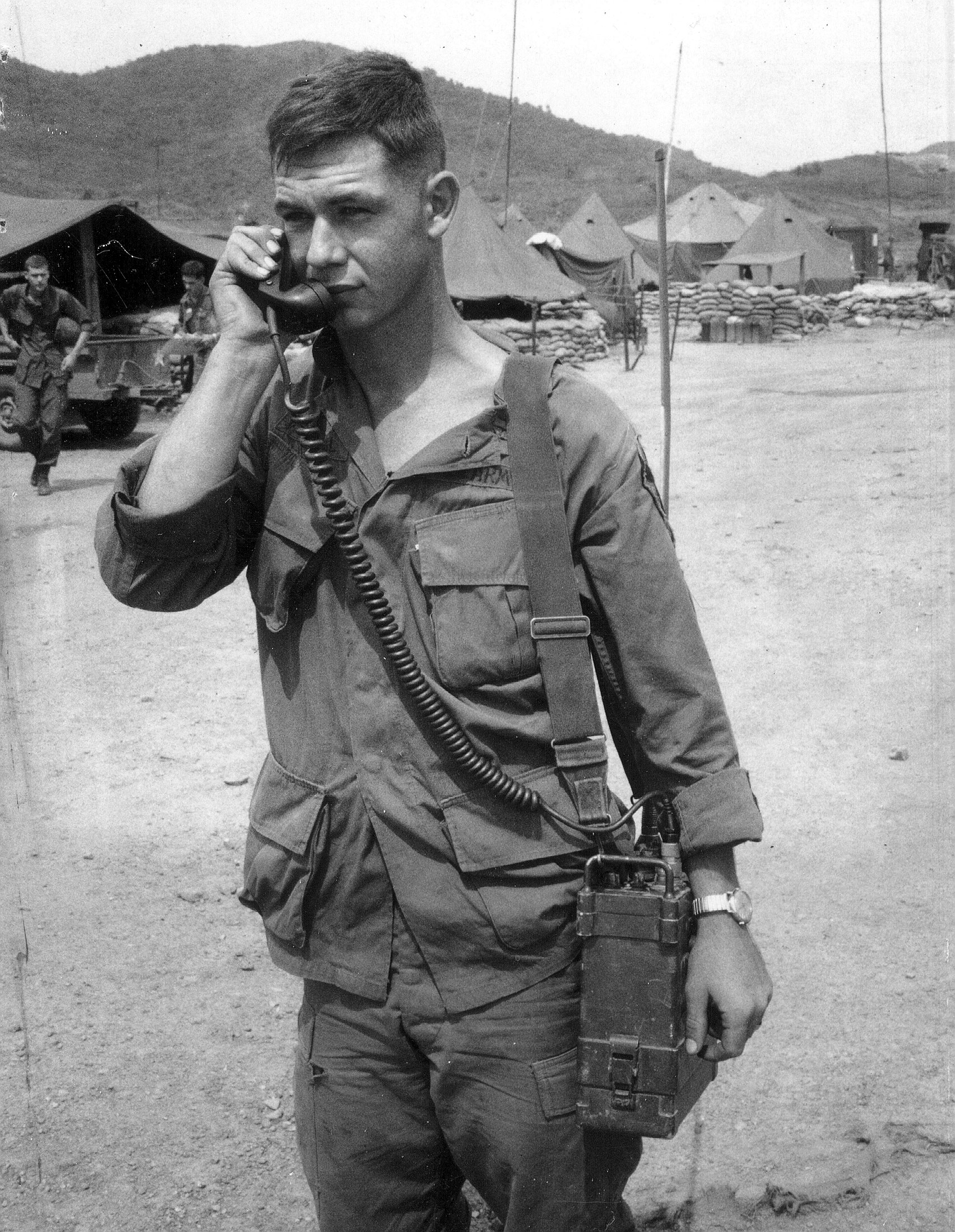 Soldier with PRC-25 radio in Southeast Asia